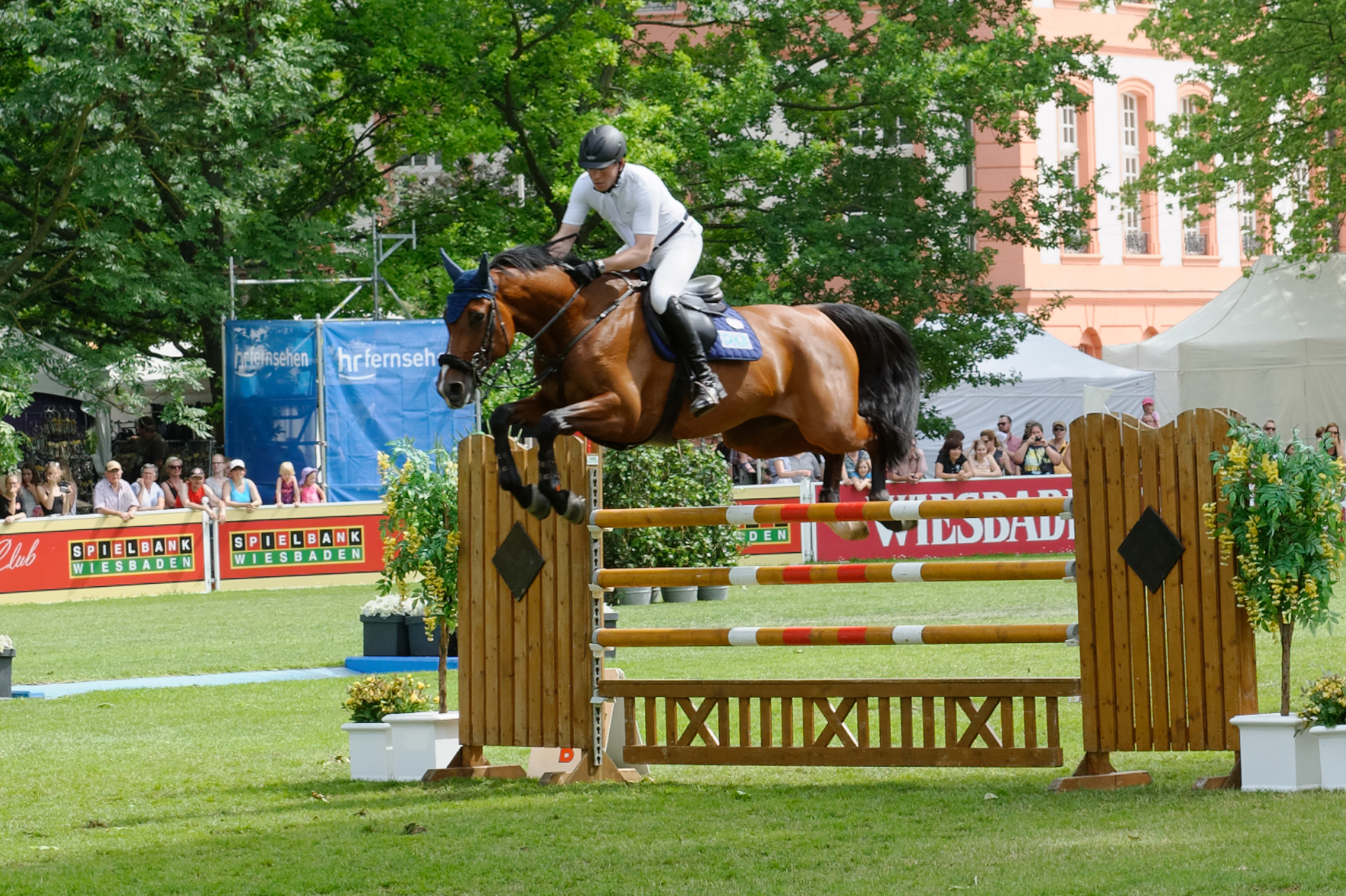 Internationales Pfingstturnier Wiesbaden 2014 The making of this document was supported by the Community-Budget of Wikimedia Germany.